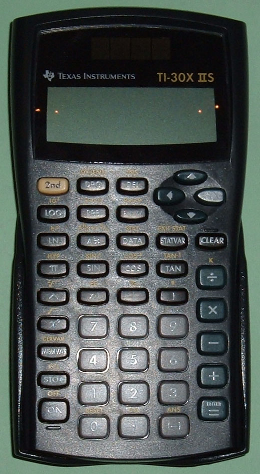 This is a really bad photo of a TI-30X IIS